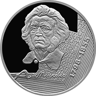 Dedicated to the 200th Annyversary of Adam Mickewich. Silver commemorative coins, denomination: 20 rubles